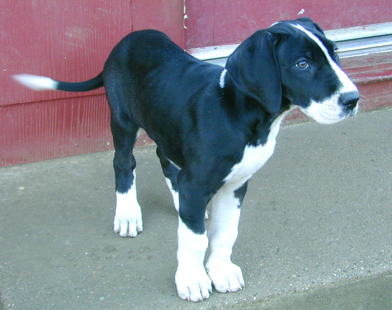 Great Dane puppy (Wiemeir, California) Слика:Great Dane puppy.jpg